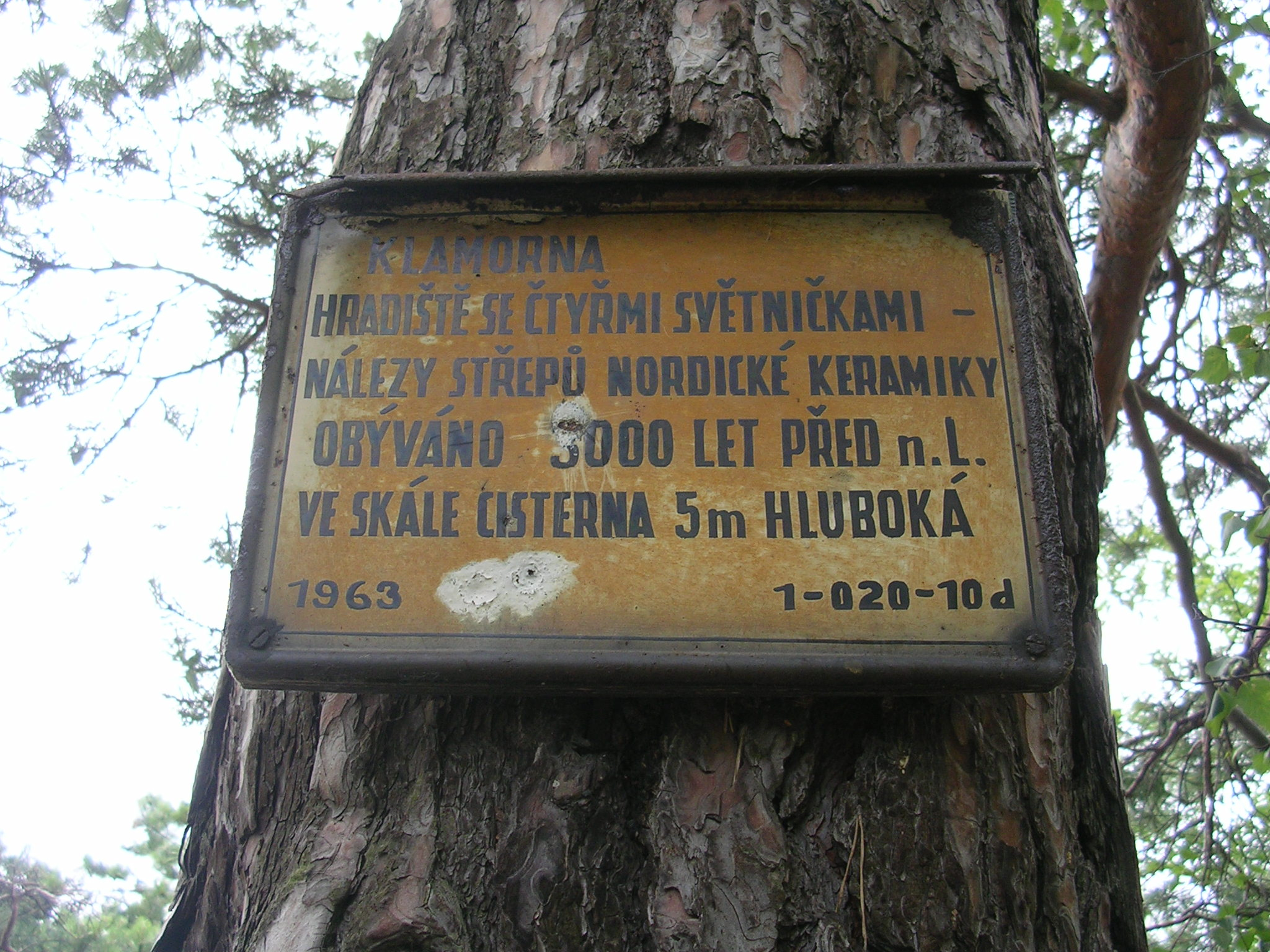 Mladá Boleslav District, Central Bohemian Region, the Czech Republic. Klamorna Castle, a hiking information sign from 1963.